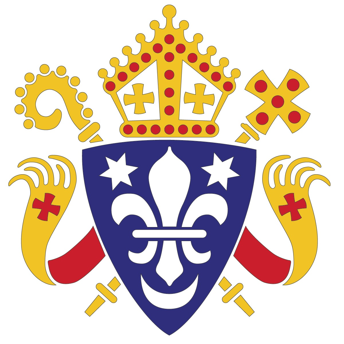 Official Logo for the Catholic Bishops' Conference of England and Wales